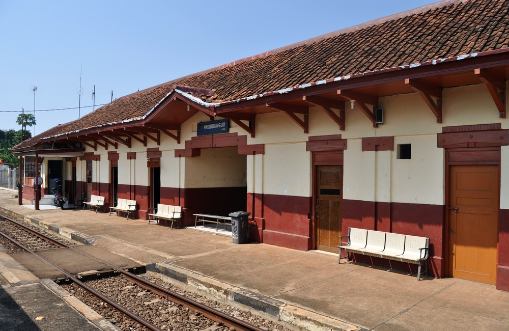 Pasirbungur train station in West Java